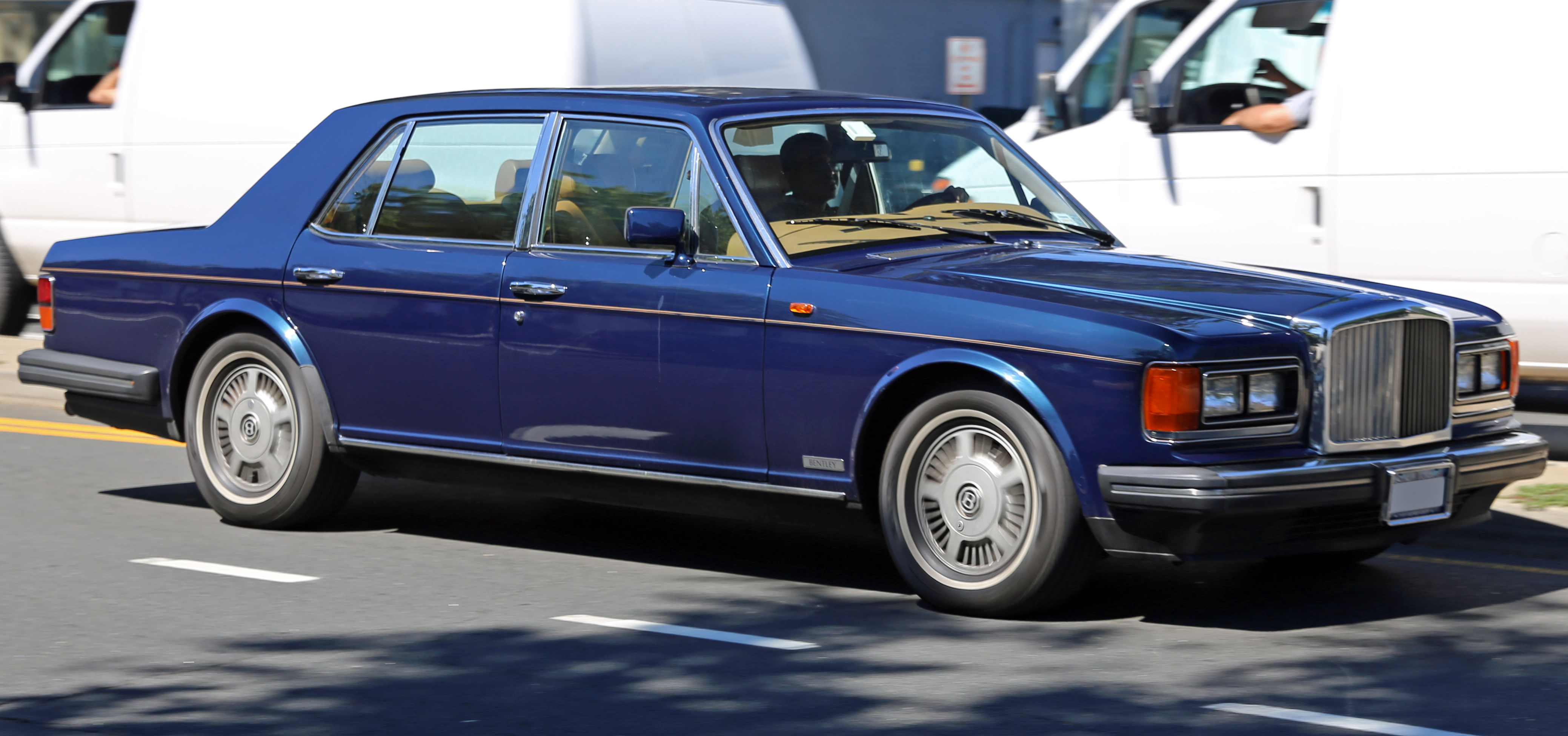 1987-89 Bentley Mulsanne S in East Hampton, NY. This is an early model with the federal headlamps.